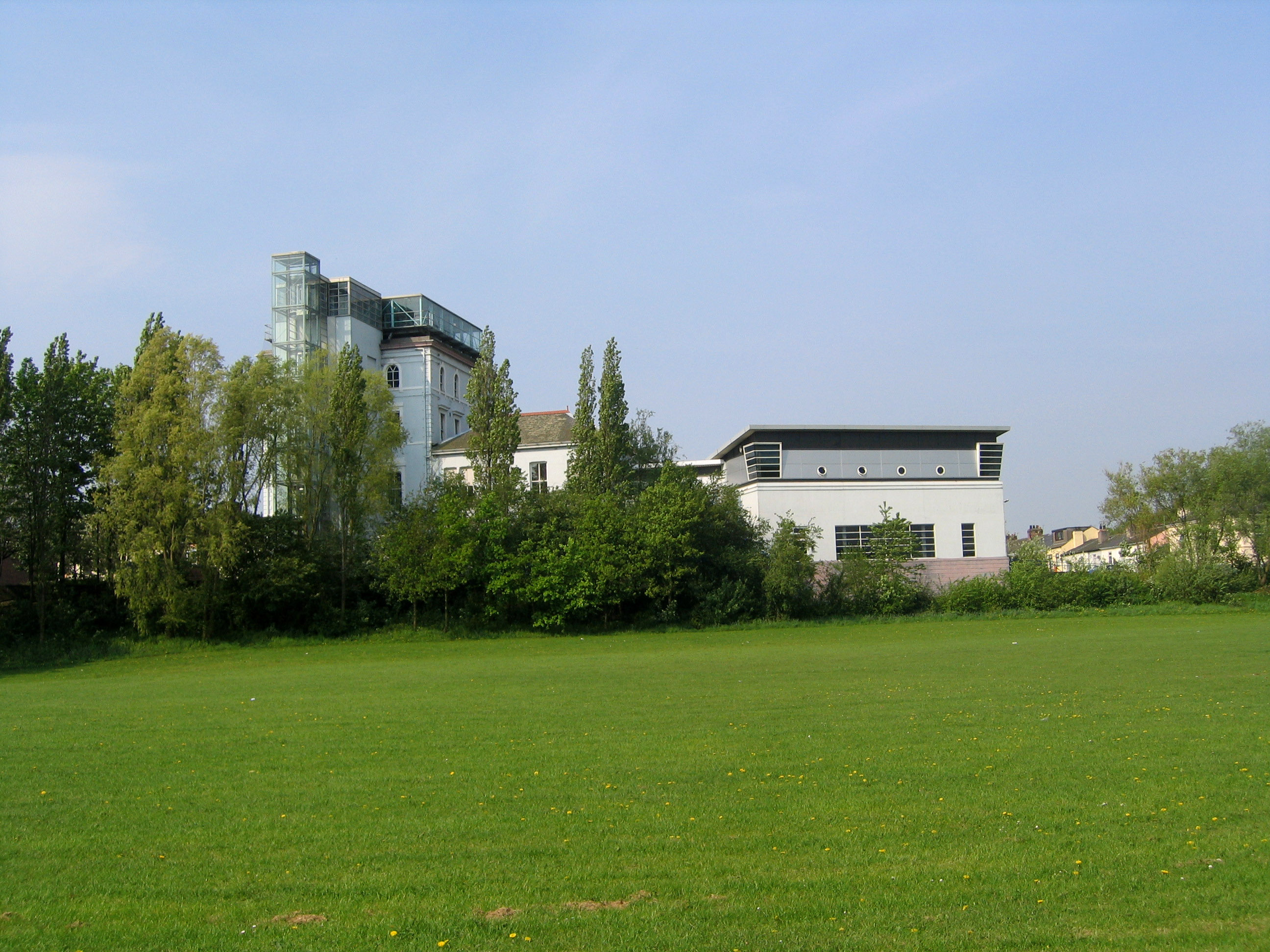 Catalyst Museum.